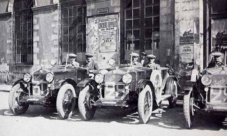 O.M. 665 Superba, three Italian racing cars entered at 1925 Le Mans (20–21 June 1925). From left:[1] #30 Giulio Foresti e Aimé Vassiaux (5th place, leftmost car) #28 Ferdinando Minoia e Vincenzo Coffani (did not finish in the middle)#29 Tino e Mario Danieli (4th place, rightmost car)